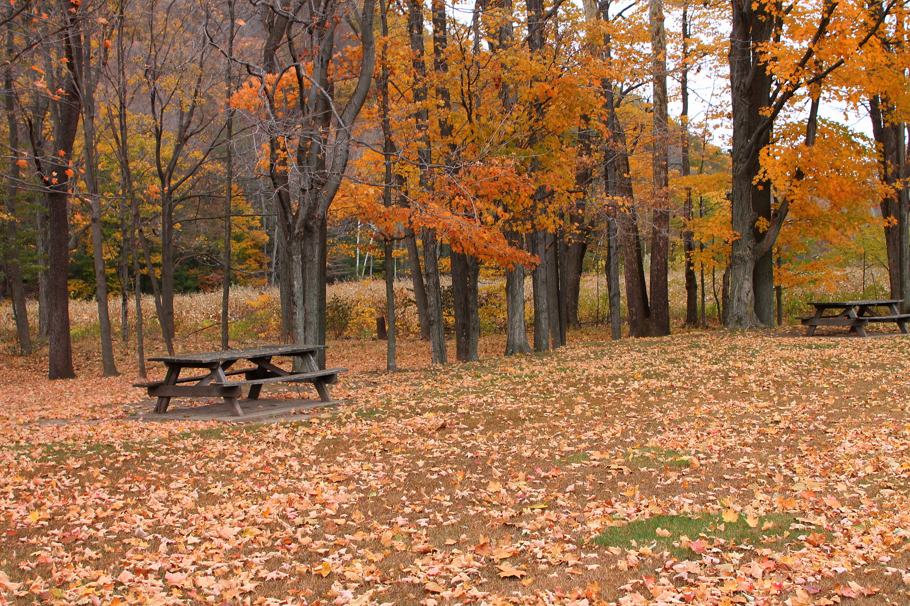 Rest stop on Pennsylvania Route 29, a few miles from Tunkhannock